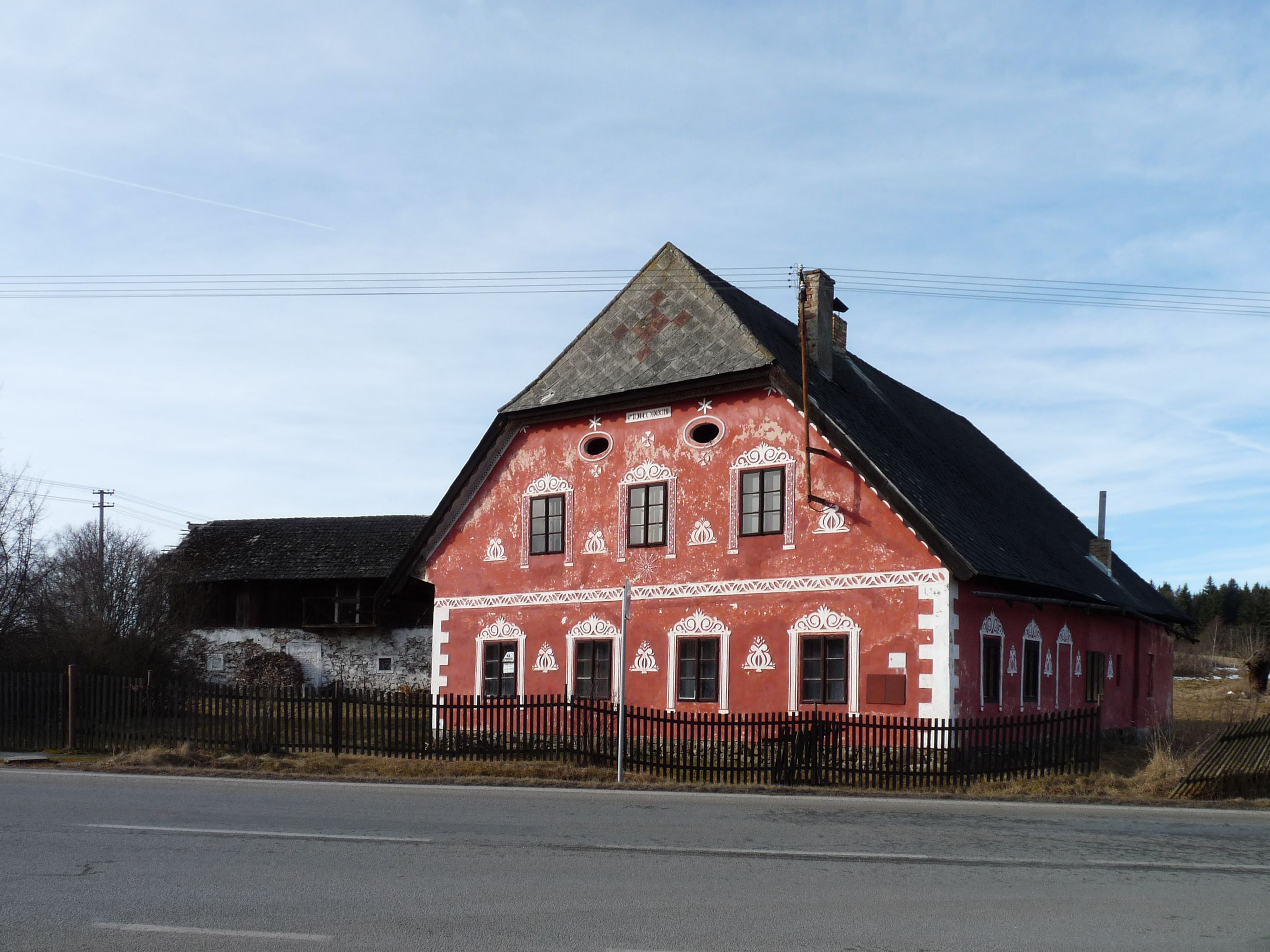 House No 9 in the village od Blažejovice, Prachatice District, South Bohemia, Czech Republic.